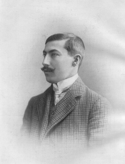 Akiba Rubinstein. Polish chess player.